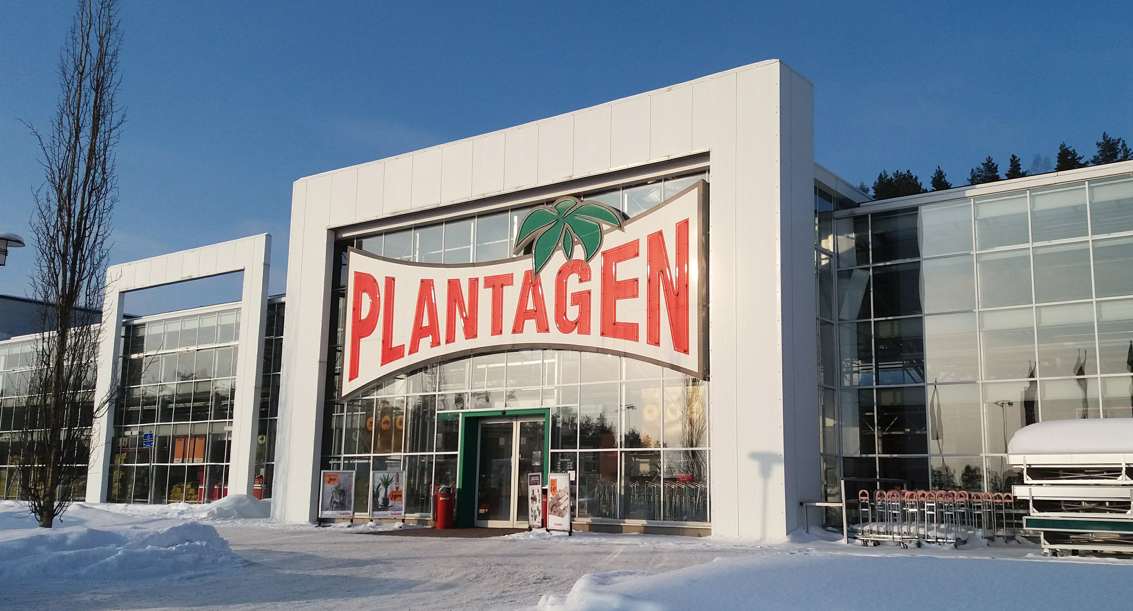 Plantagen gardening store in Jyväskylä.